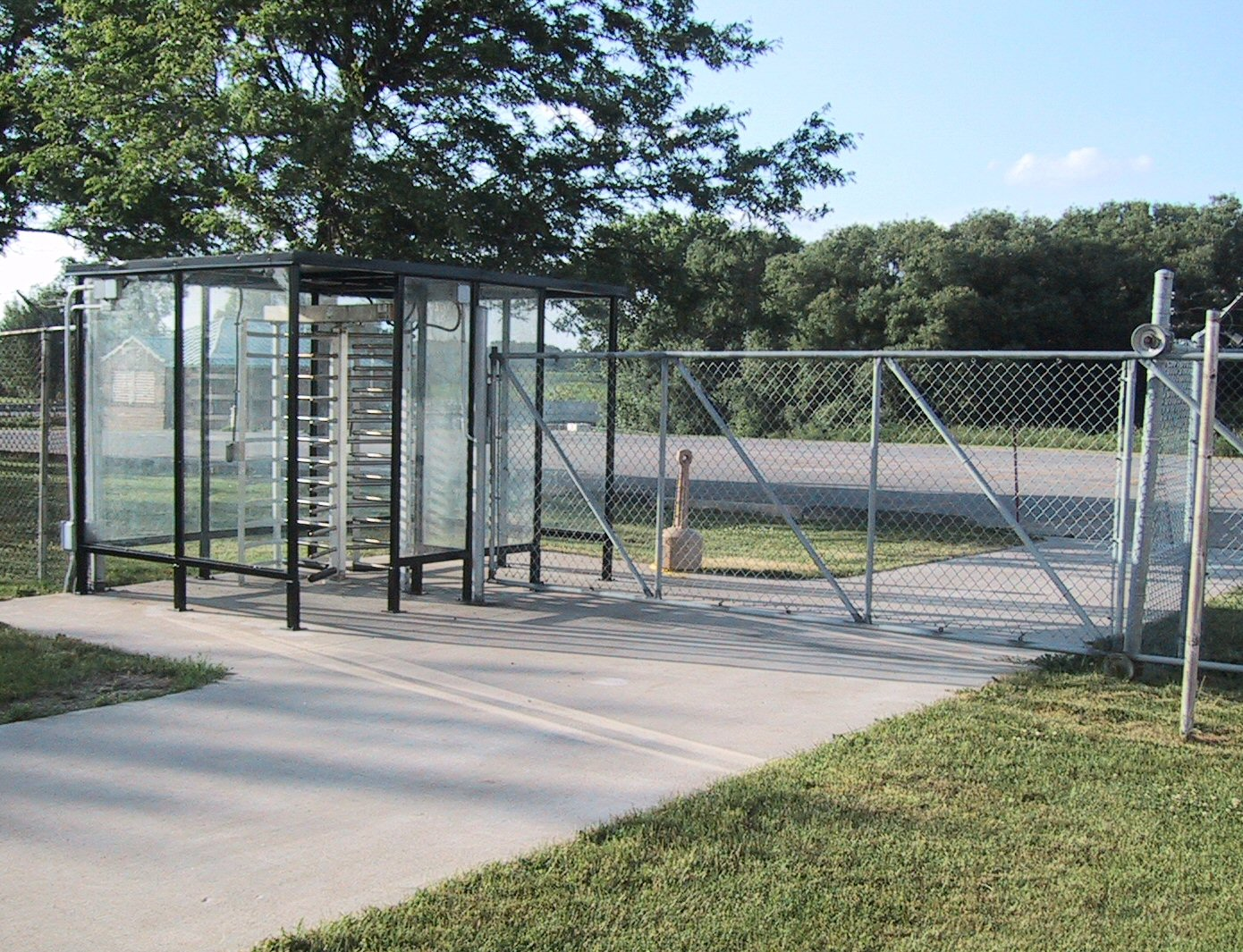 Turnstile and Magnetic Lock Gate employed to control foot and vehicle traffic. ID card readers, cameras and MagLocks allow control of this access control area from a central control point, on or off site.